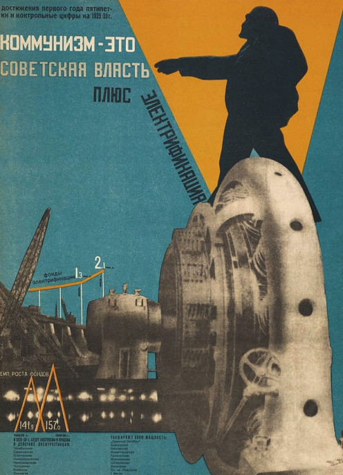 Heroic picture of Lenin with brocolage of images of heavy industry